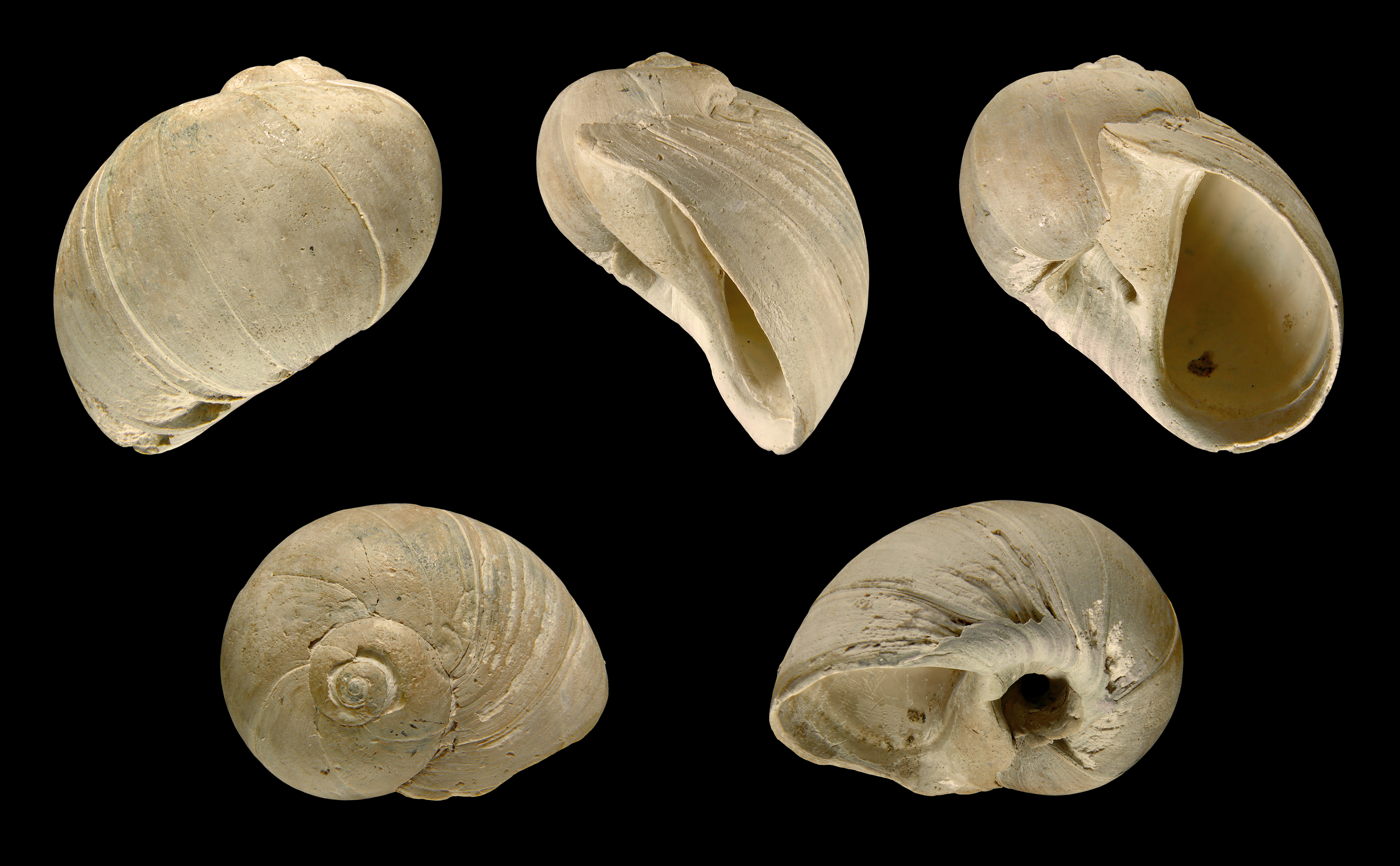 Diameter 3 cm; Lillo Formation, Pliocene; Kallo, Belgium; Shell of own collection, therefore not geocoded. In 1909 a recent Natica-species from the Lesser Sunda Islands, Indonesia, was described under the same name Natica crassa by Shepman. Being a junior homonym (and not conspecific !), the latter (recent) species was renamed as Natica shepmani n. n. in 1927 by Finley (see: Finley, H.J. (1927): New Specific Names for Austral Mollusca; Transactions and Proceedings of the Royal Society of New Zealand, Vol. 57, p. 499.) The specimems of Nyst and Shepman are not conspecific.